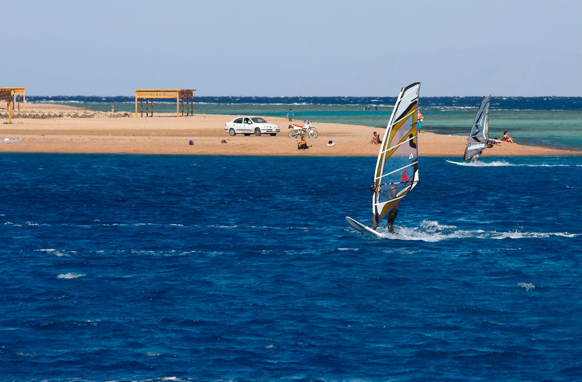 Dahab, Egypt